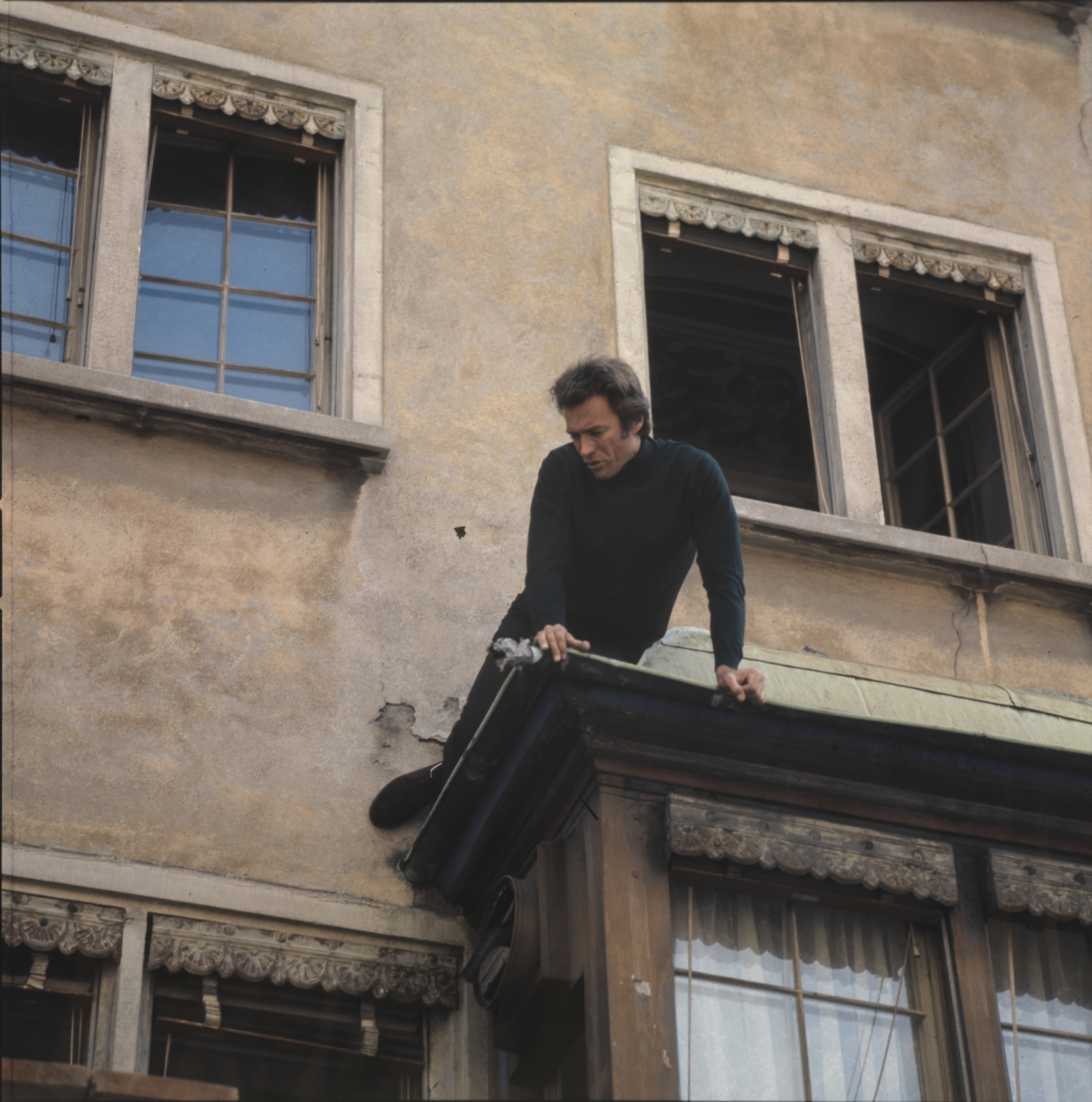 Film shoot with Clint Eastwood for "The Eiger Sanction" in Zurich, Switzerland